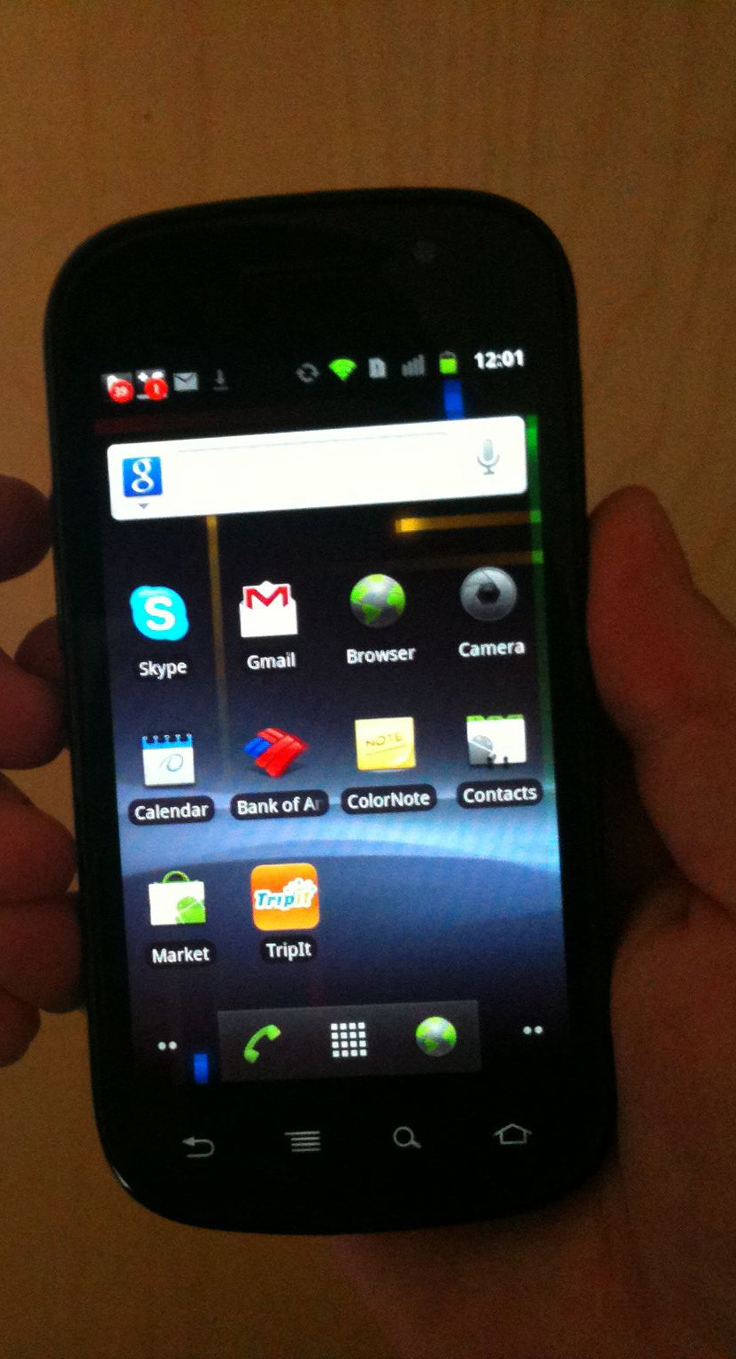 While Apple has not listened to my complaints about its iPhone in app donation policy, Google and Microsoft are all ears. I received a Windows 7 phone from Microsoft and Nexus S Android phone from Google. Now I have a Smartphone for each hand and will be exploring best practices in nonprofits, social media, and mobile during the next year.